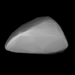 3D convex shape model of 1353 Maartje, computed using light curve inversion techniques. J. Hanuš, J. Ďurech, M. Brož, B. D. Warner (June 2011). "A study of asteroid pole-latitude distribution based on an extended set of shape models derived by the lightcurve inversion method". Astronomy and Astrophysics 530: A134. ISSN 0004-6361. arXiv